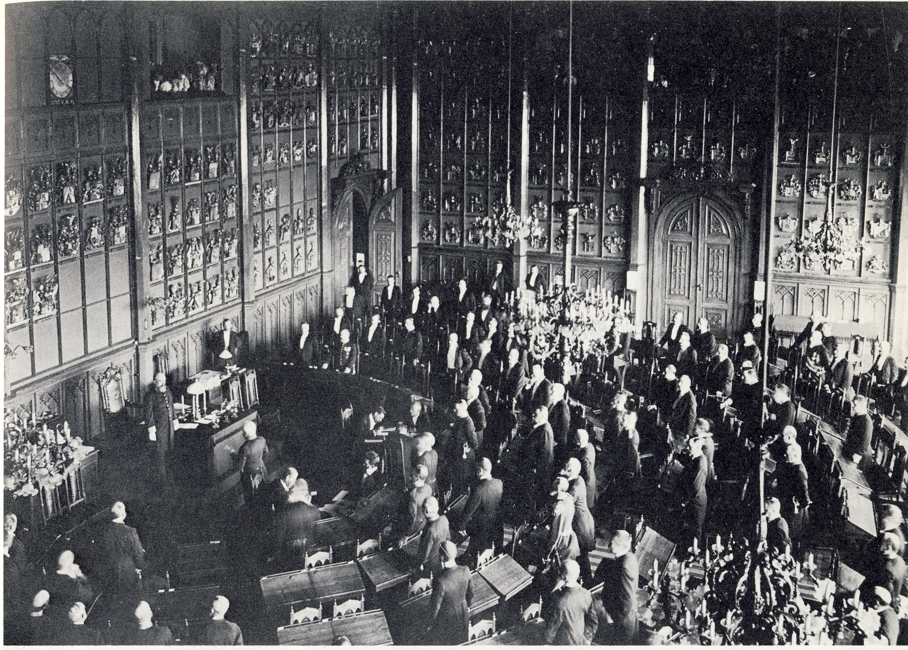 The last meeting of Finnish noble estate in Ritarihuone; Lord Marshal Viktor Magnus von Born speaking.